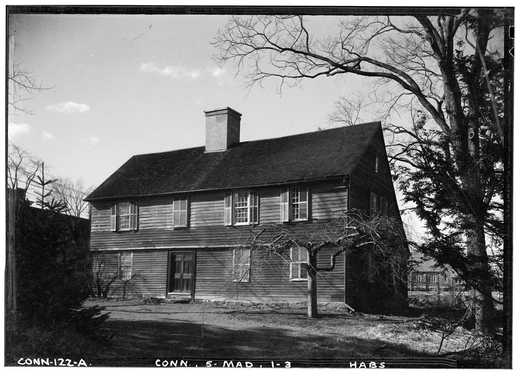 Photographic view of the exterior of the Deacon John Graves House, Madison, New Haven County, Connecticut, Historic American Buildings Survey, Library of Congress, Washington, D. C.